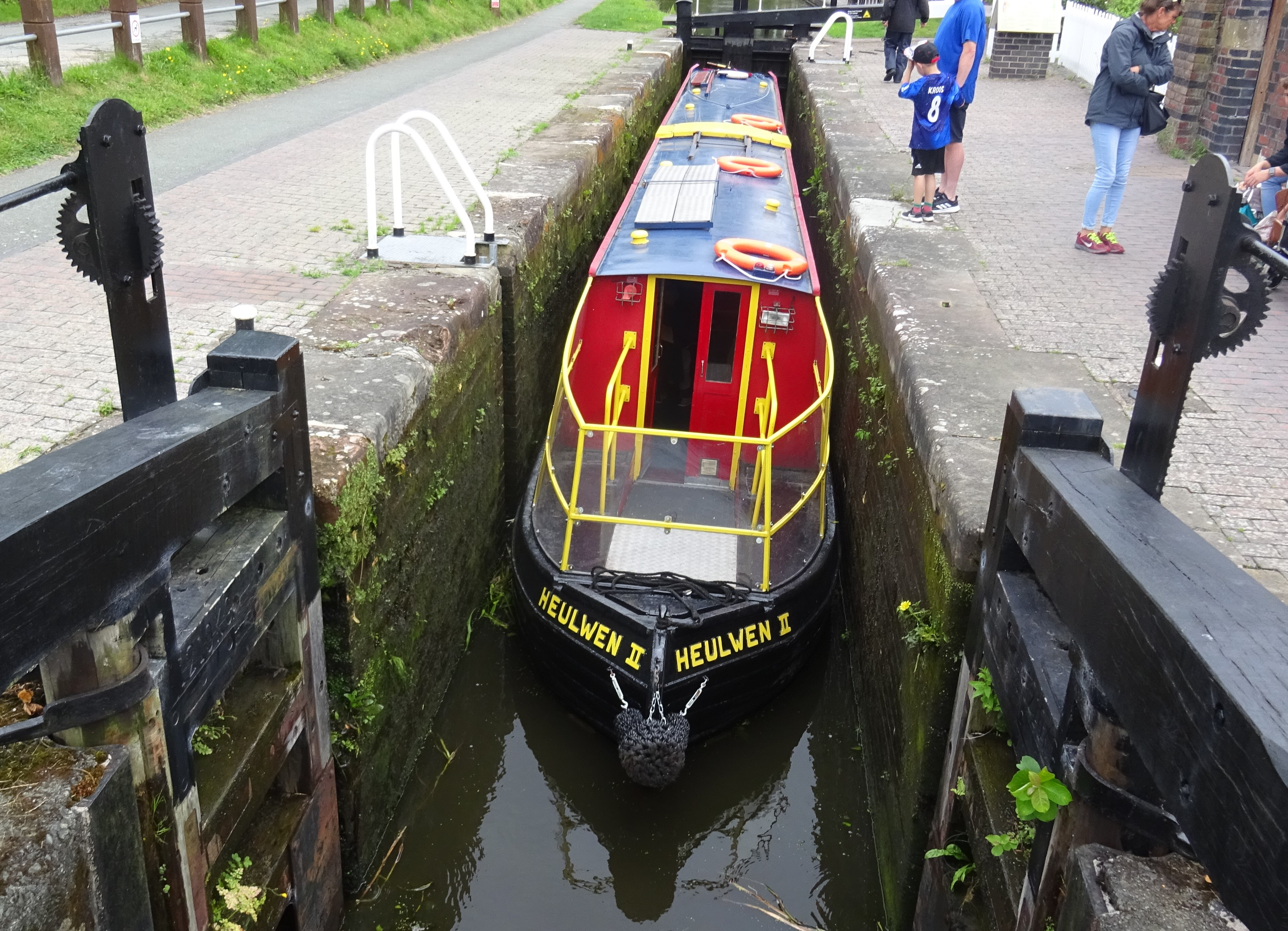 A Narrow boat passing through Welshpool Lock, Montgomery Canal, Powys, Wales.